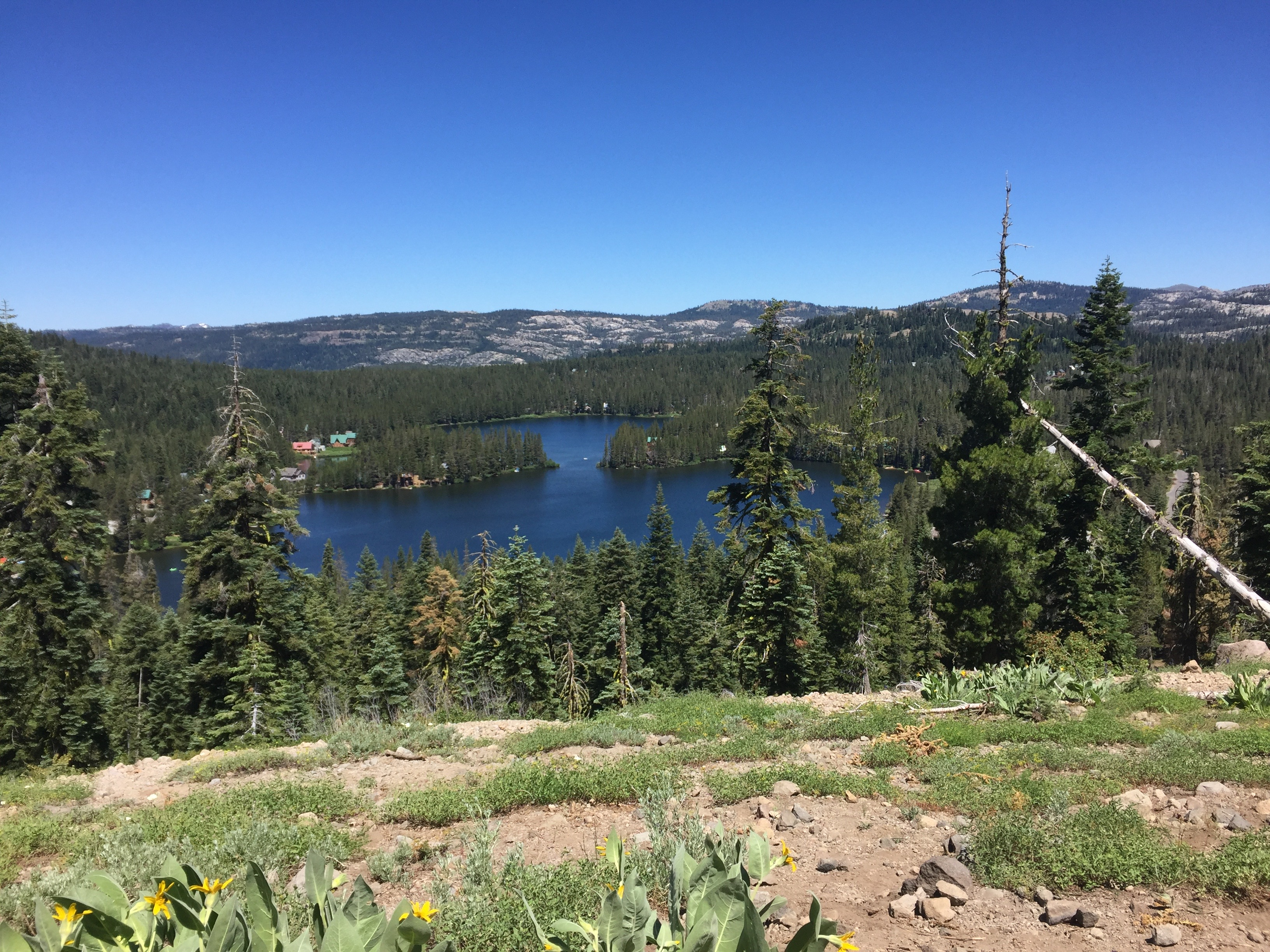 Serene Lakes from Bill and Flora's Point